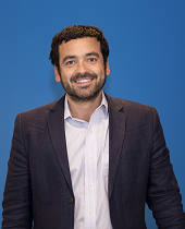 Official photo of Sebastián Villarreal Bardet as Undersecretary of Social Services of Chile in 2018